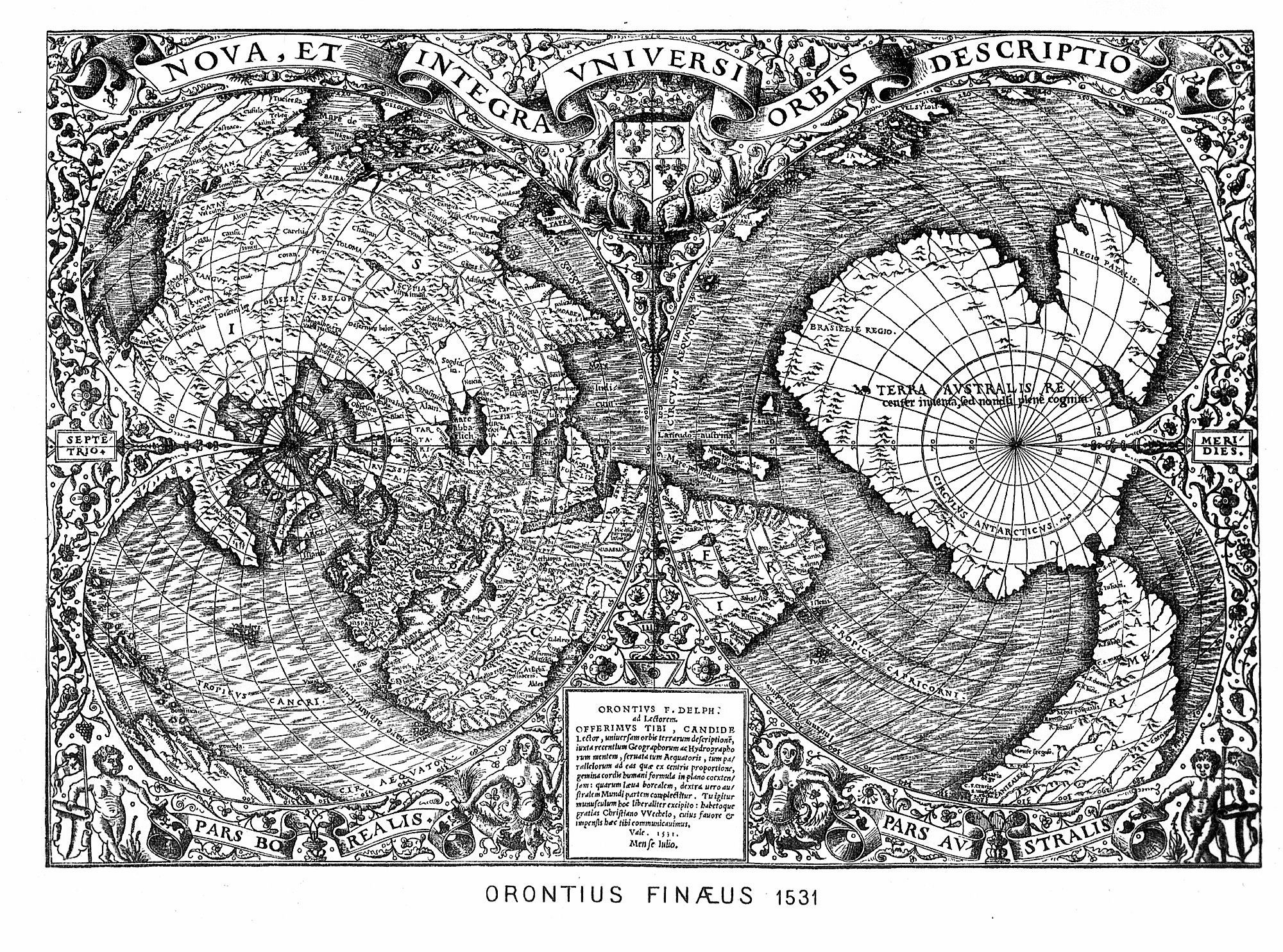 The famous and extraordinary 1531 world map by the French scientist Oronce Fine. It is the first(?) Greenland as an island and the most detailed Antarctica.